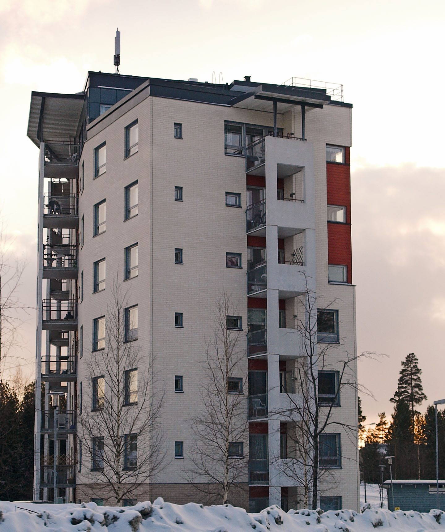 Side view of "Pirtti-tower" in Pirtinkaari 1 -street, Kuopio, Finland. 4 855 brm2